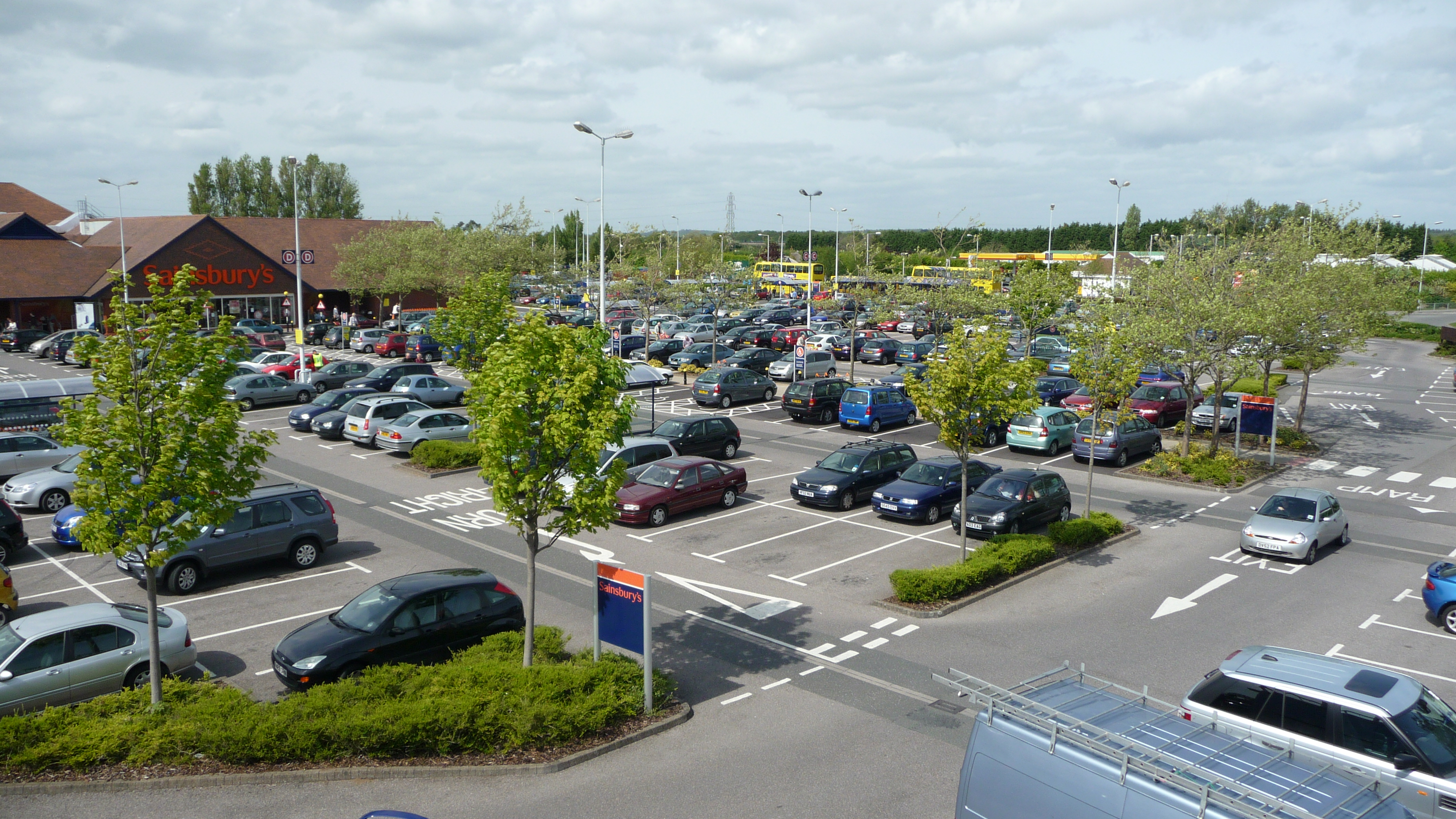 The Sainsbury's supermarket car park in Somerford, Christchurch, Dorset, seen from the footbridge over A35 Lyndhurst Road at Somerford Roundabout.